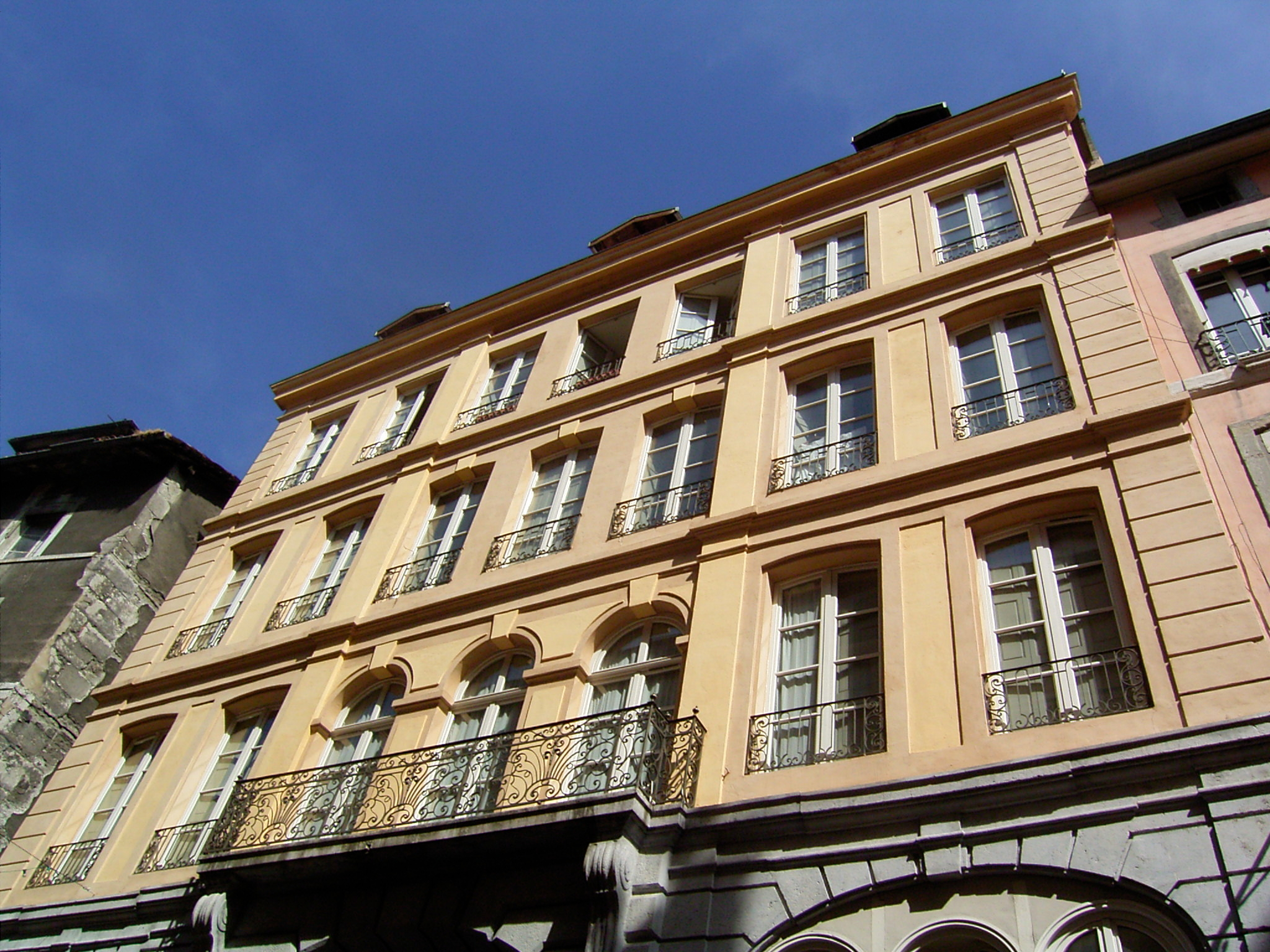 Façade of the hotel of de Croÿ-Chasnel, Grenoble, France